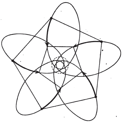 Ellipsenverein. The atomic model by Arnold Sommerfeld (extracted from the 2nd edition of his book "Atombau und Spektrallinien")